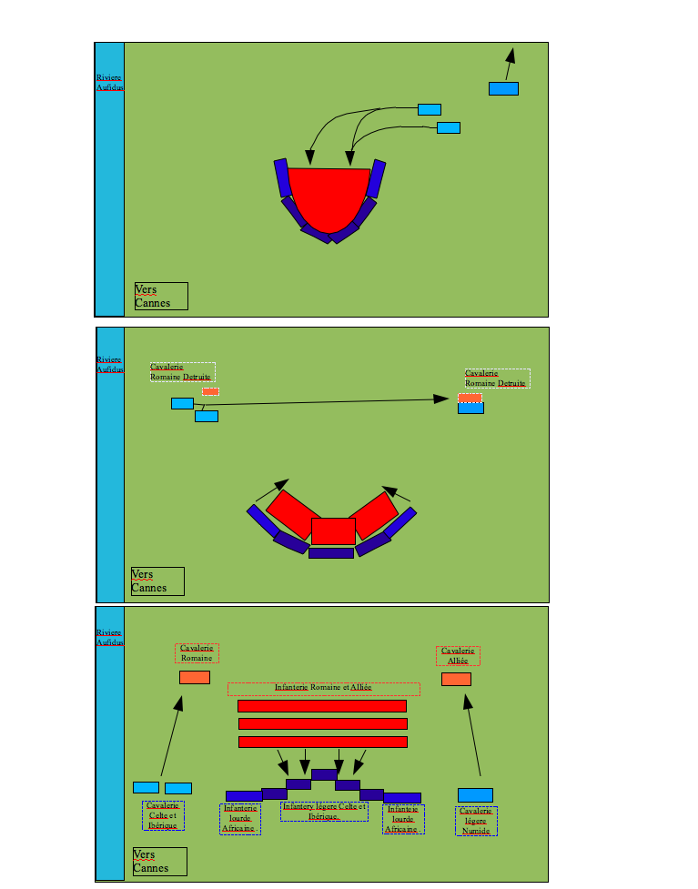 Battle of Cannae, by Kaskarn